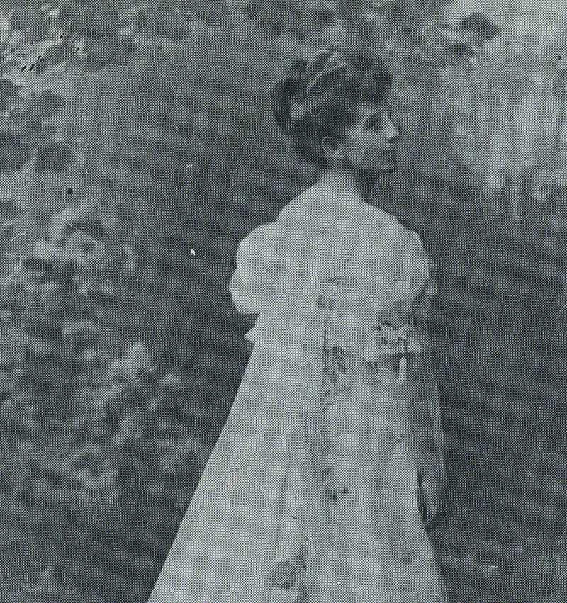 Mary Twynam (married name Mary Cunningham), daughter of Edward Twynam, owner of Riversdale, Goulburn